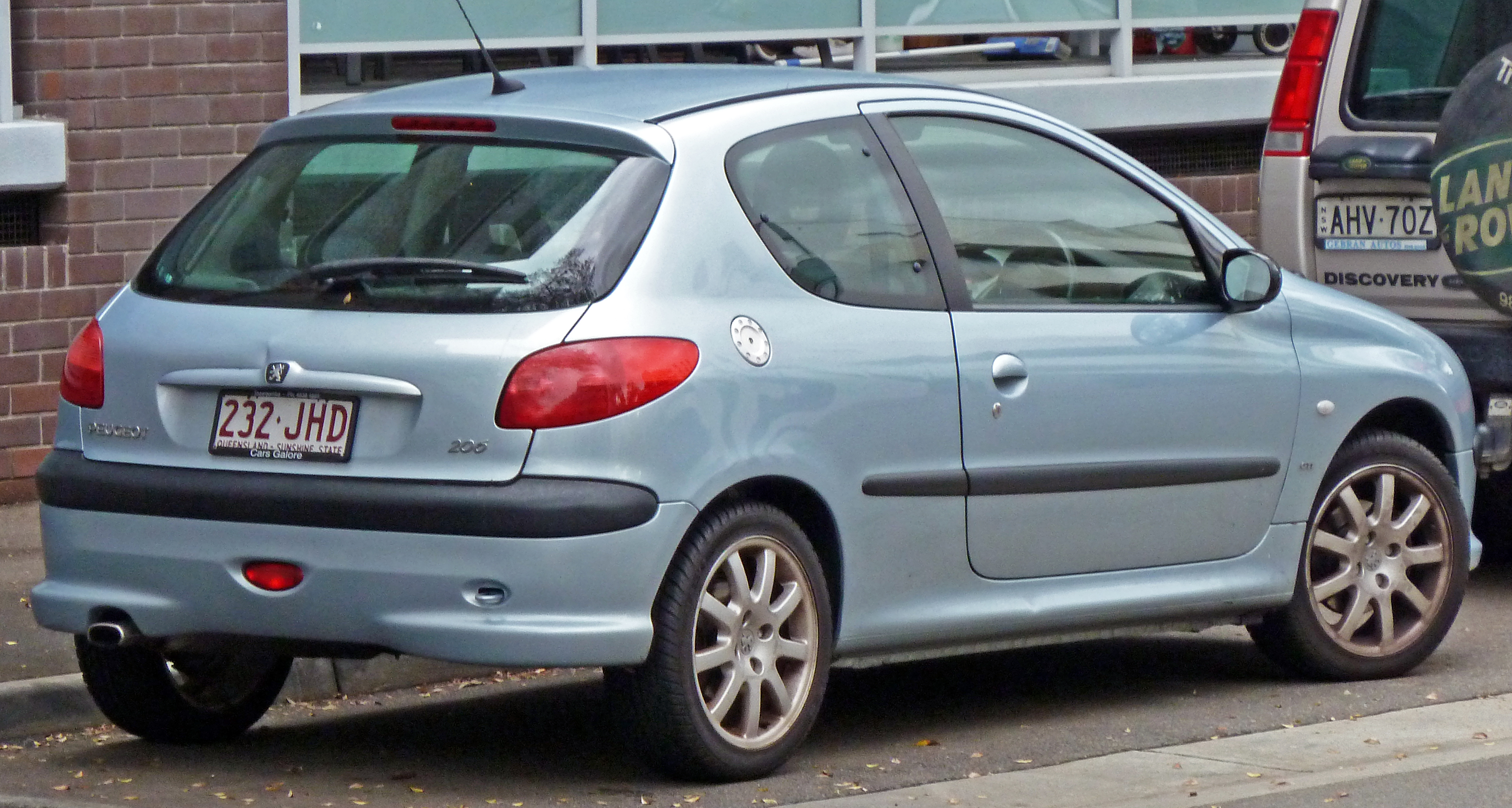 2001–2003 Peugeot 206 (T1) GTi 3-door hatchback. Photographed in Zetland, New South Wales, Australia.